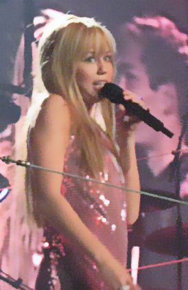 Hannah Montana aka Miley Cyrus on the stage of Hannah Montana Tour